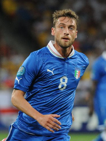 Claudio Marchisio at Euro 2012 match against England.